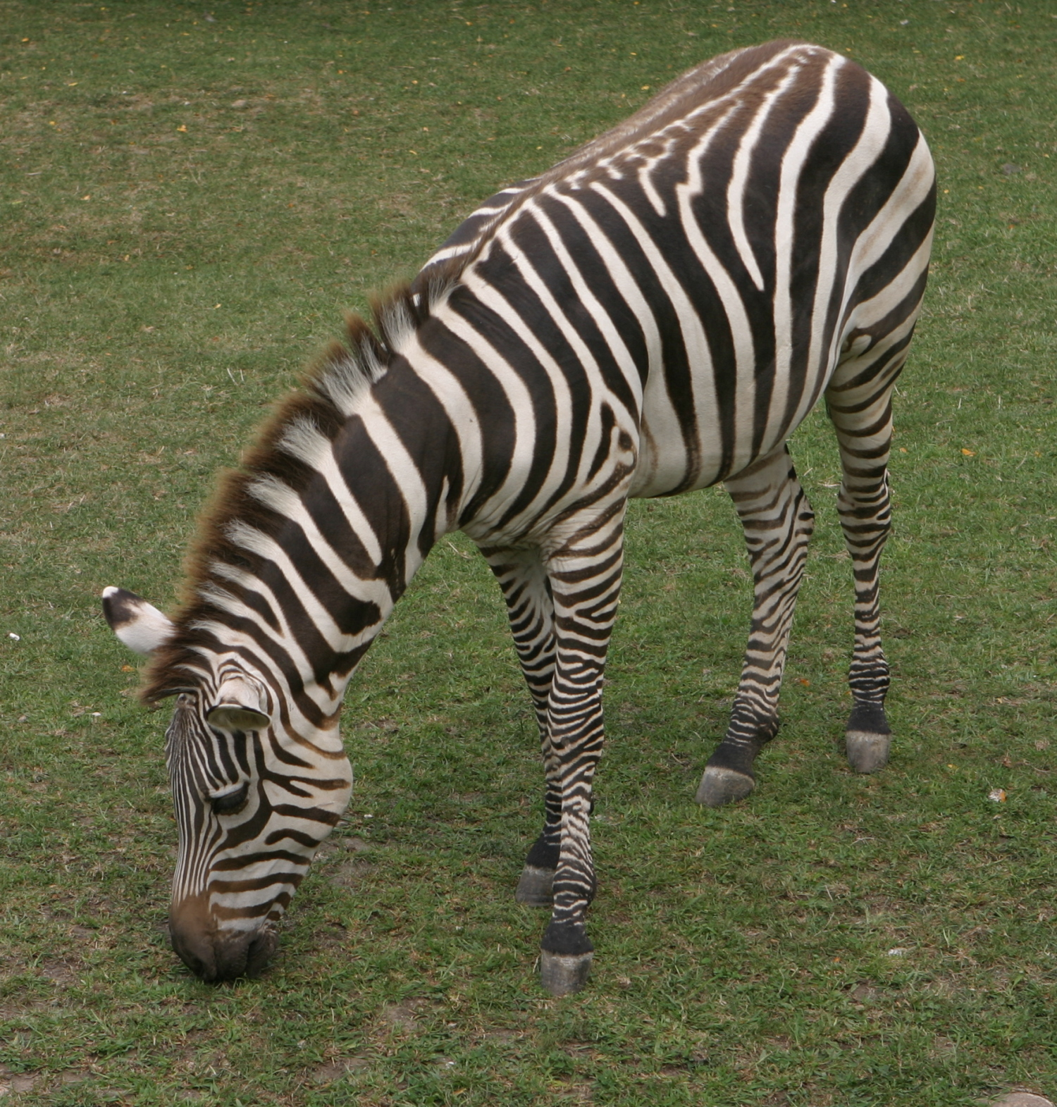 Grant's Zebra at the Indianapolis Zoo.